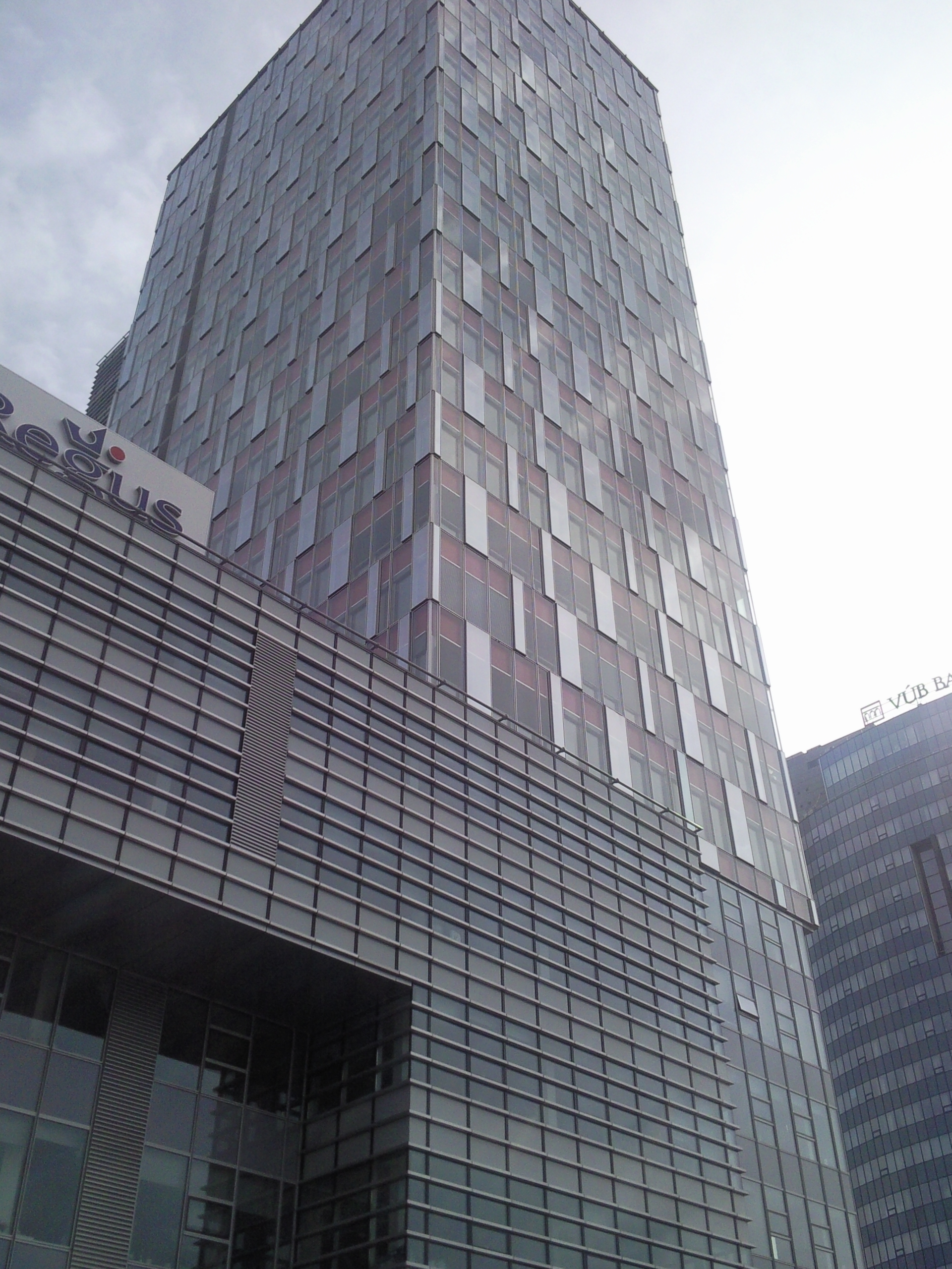 Mlynské Nivy Central Business District, Bratislava, Slovakia, Europe